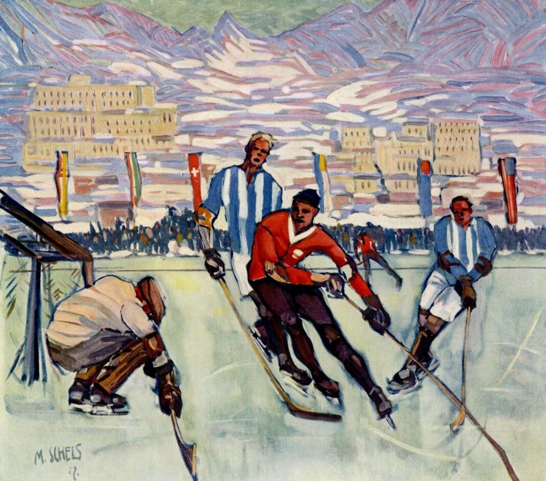 Hockey match in Switzerland